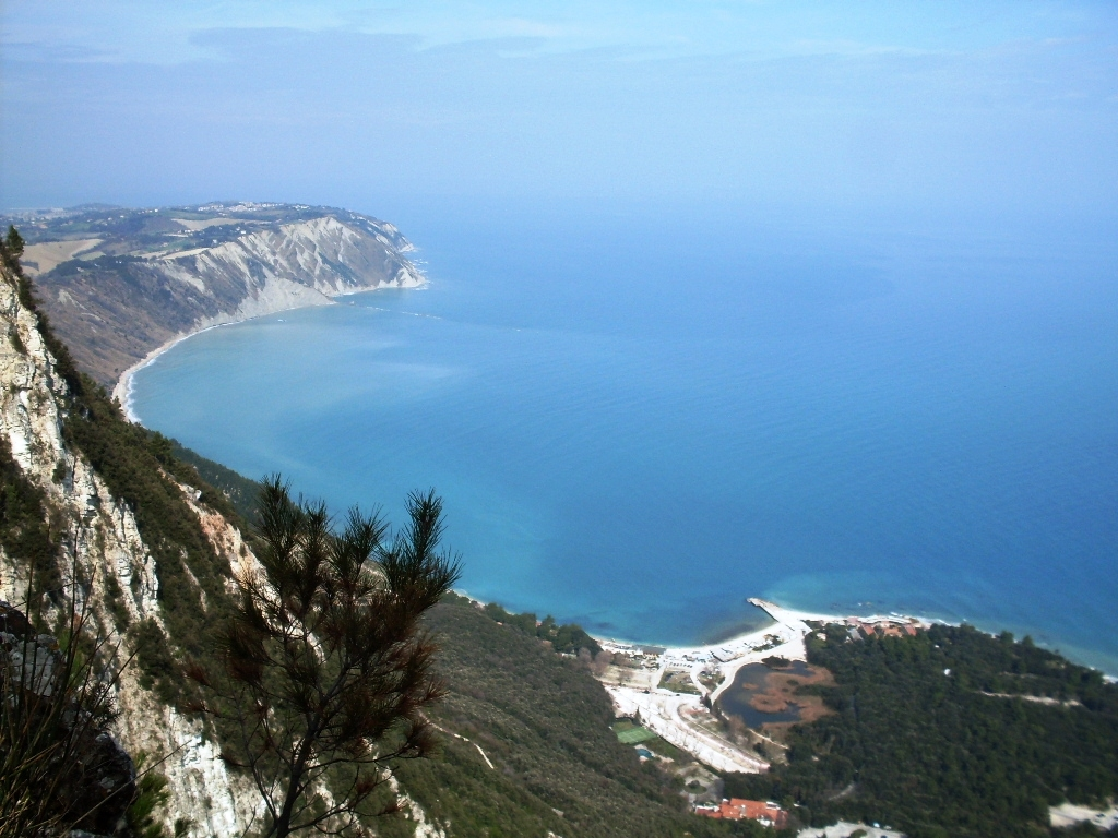 Italy Ancona Portonovo - view